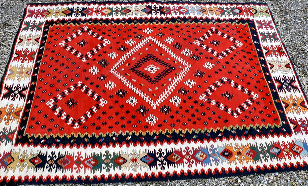 Pirot Kilim Venci Rasiceva ploca